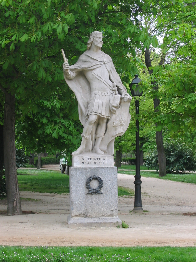 Statue of Visigoth king Chintila († 639) at the Paseo de la Argentina (a walk) in the Retiro Park (Jardines del Buen Retiro), in Madrid (Spain). Sculpted in white stone by François de Vôge between 1750 and 1753.